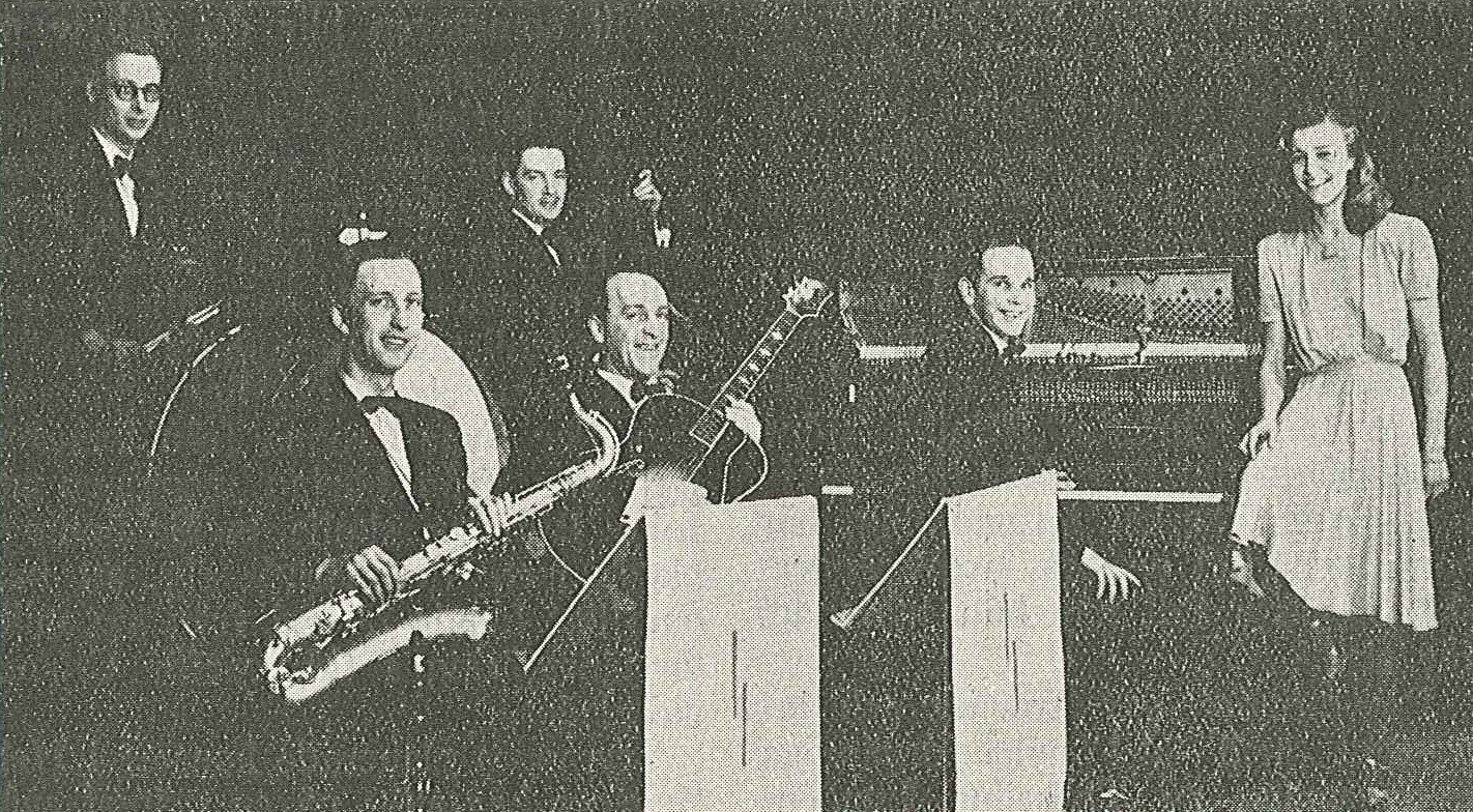 Swedish vocalist Alice Babs with her touring band in 1943. From left: Sture Olsson, Olle Fredriksson, Allan Hedberg, Acke Sundin, Charlie Norman and Alice Babs herself.